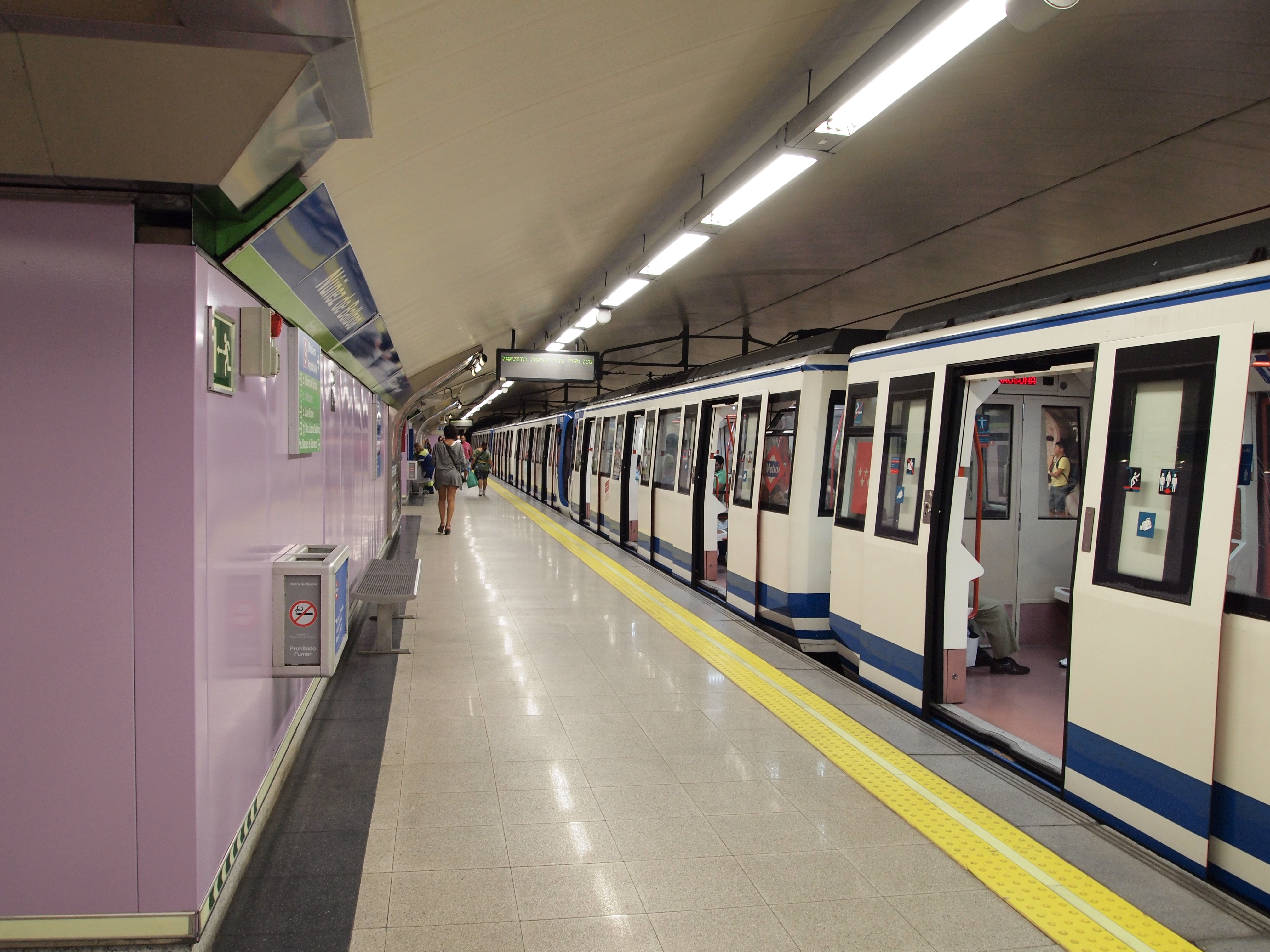 Metro train at the station Estación de Núñez de Balboa in Madrid. This photograph was taken with a Olympus E-PL1.